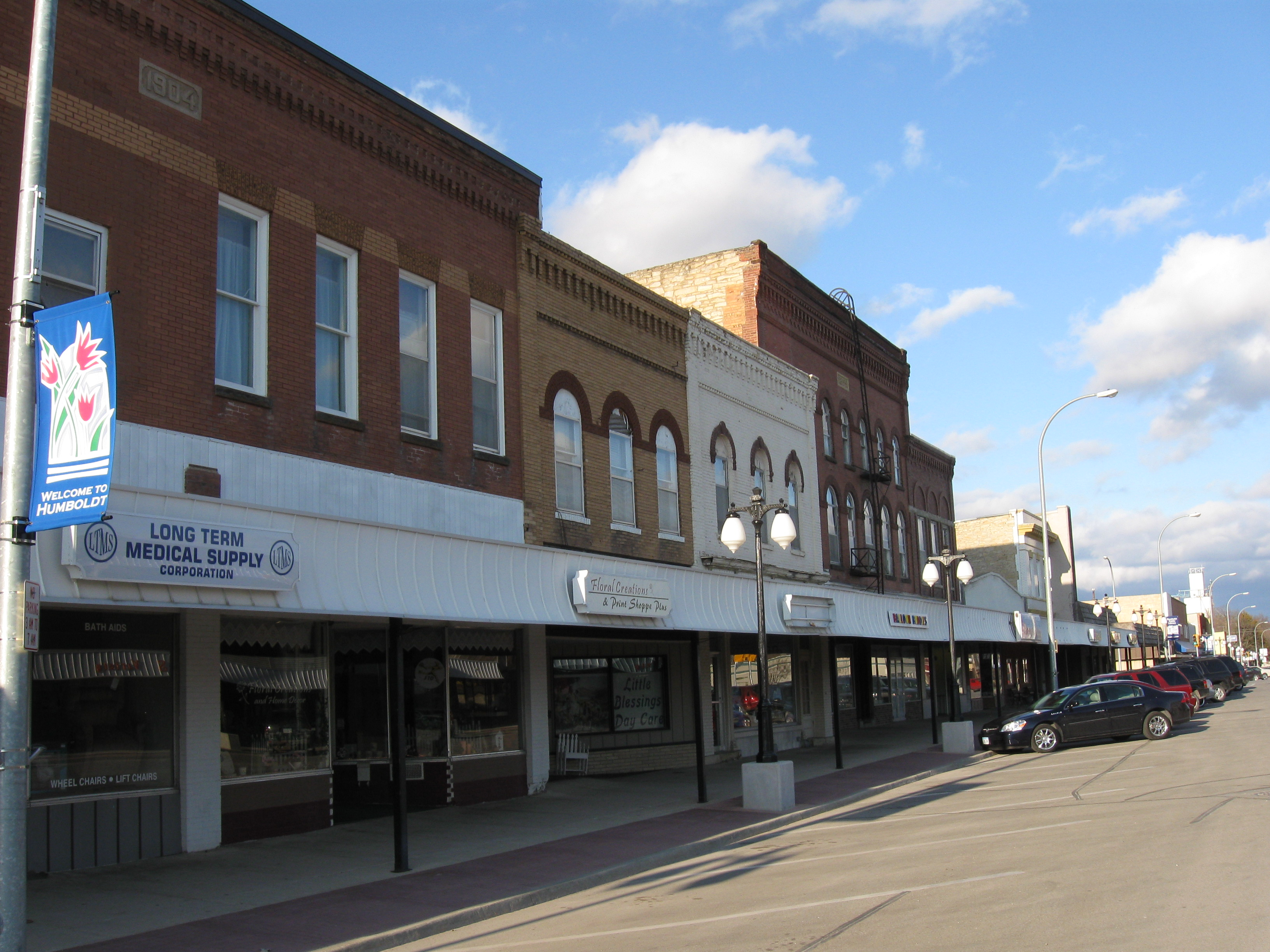 Humboldt, Iowa. Bill Whittaker (talk) 13:17, 23 April 2009 (UTC)